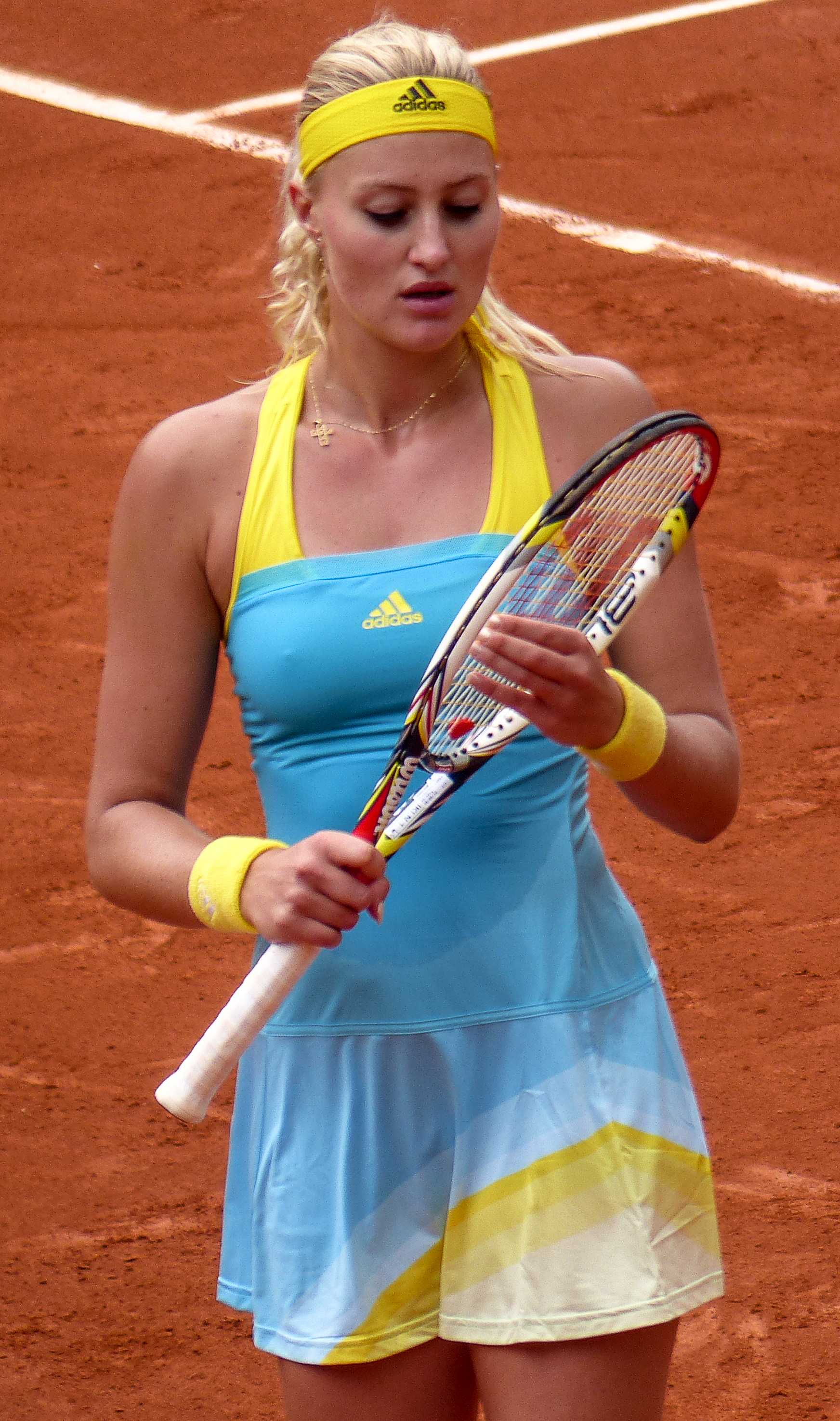 2ème tour Roland Garros 2013 : Samantha Stosur (AUS) def. Kristina Mladenovic (FRA)